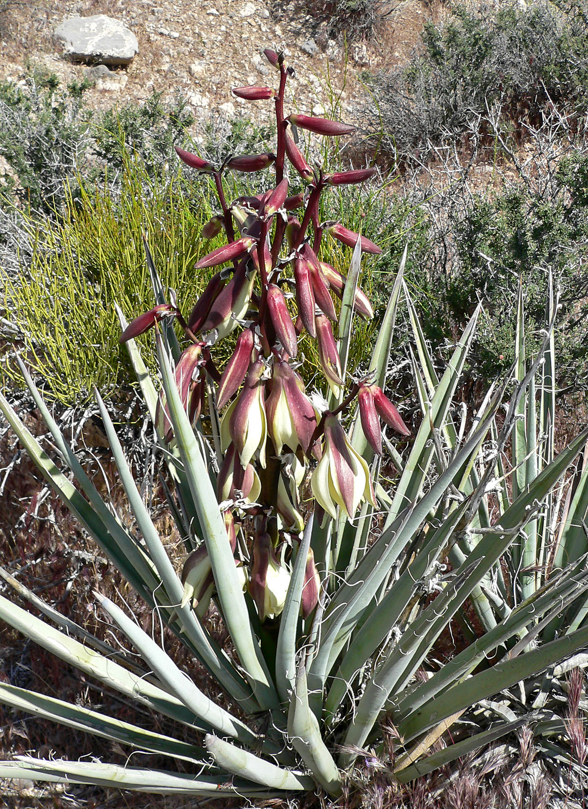 Photo of Yucca baccata var. baccata (banana yucca) in Red Rock Canyon, Nevada